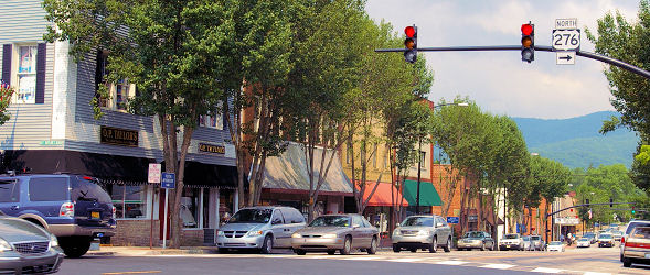 Downtown Brevard North Carolina